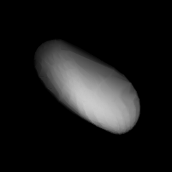 3D convex shape model of 943 Begonia, computed using light curve inversion techniques. J. Hanuš, J. Ďurech, M. Brož, B. D. Warner (June 2011). "A study of asteroid pole-latitude distribution based on an extended set of shape models derived by the lightcurve inversion method". Astronomy and Astrophysics 530: A134. ISSN 0004-6361. arXiv